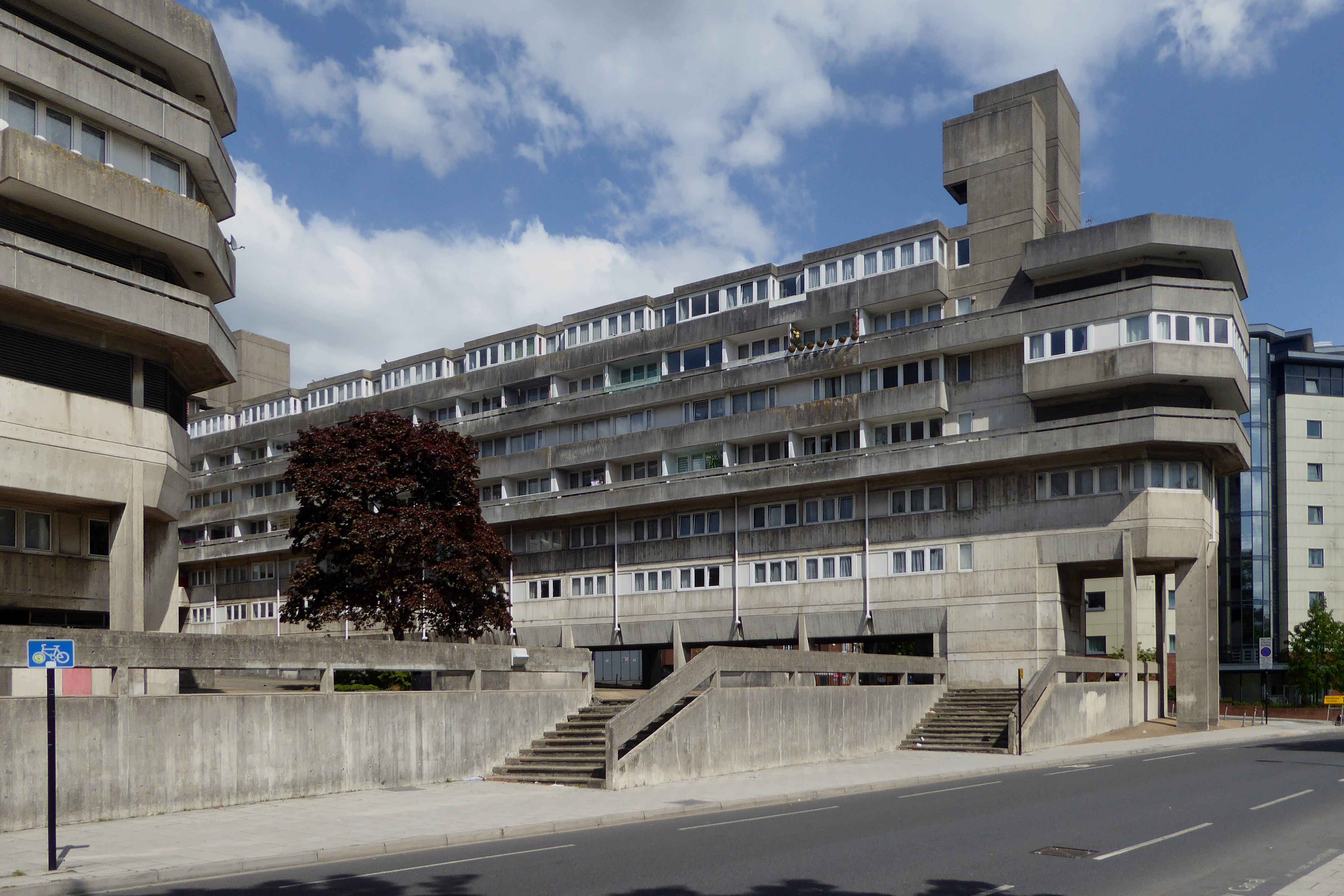 The eastenr wing of Wyndham Court in Southampton as seen from the road to the south (Blechynden Terrace).